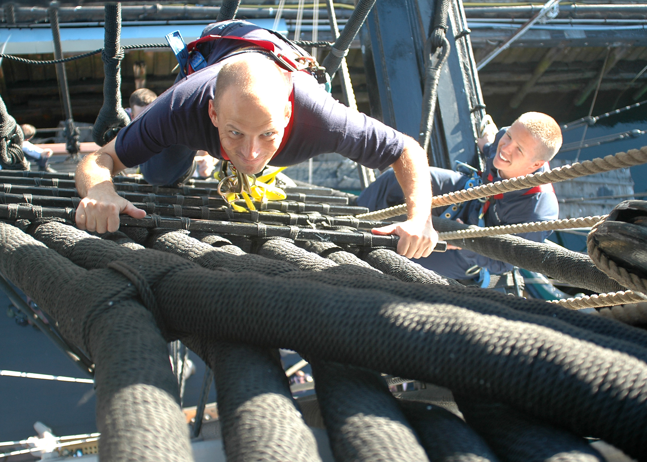 Boston (Aug. 23, 2005) – A chief petty officer (CPO) selectee climbs the rigging of the foremast of USS Constitution during sail training. “Old Ironsides” takes part in CPO selectee training every summer, teaching approximately 300 new chiefs leadership and teamwork skills from naval history so they can apply that knowledge in their modern careers. U.S. Navy photo by Journalist 1st Class Matt Chabe (RELEASED)